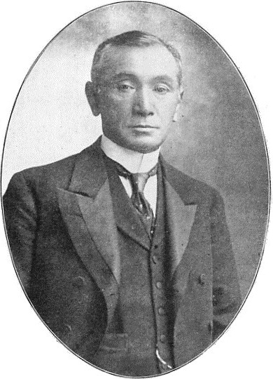 Hironao Seki